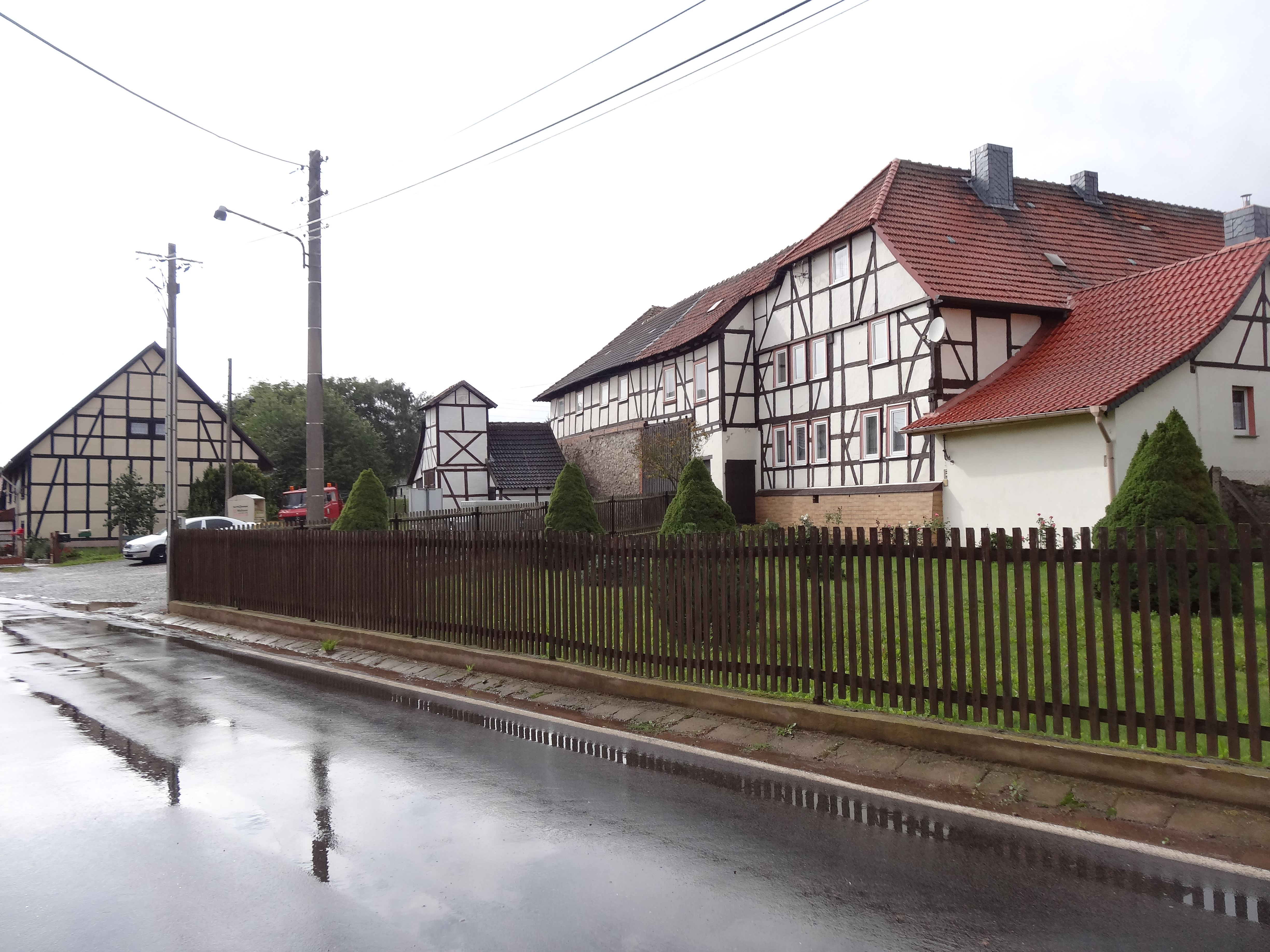 Main street in Immenrode (Werther), Thuringia, Germany